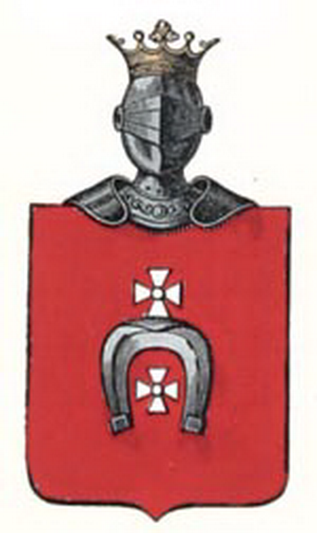 Coat of Arms of Poznański family